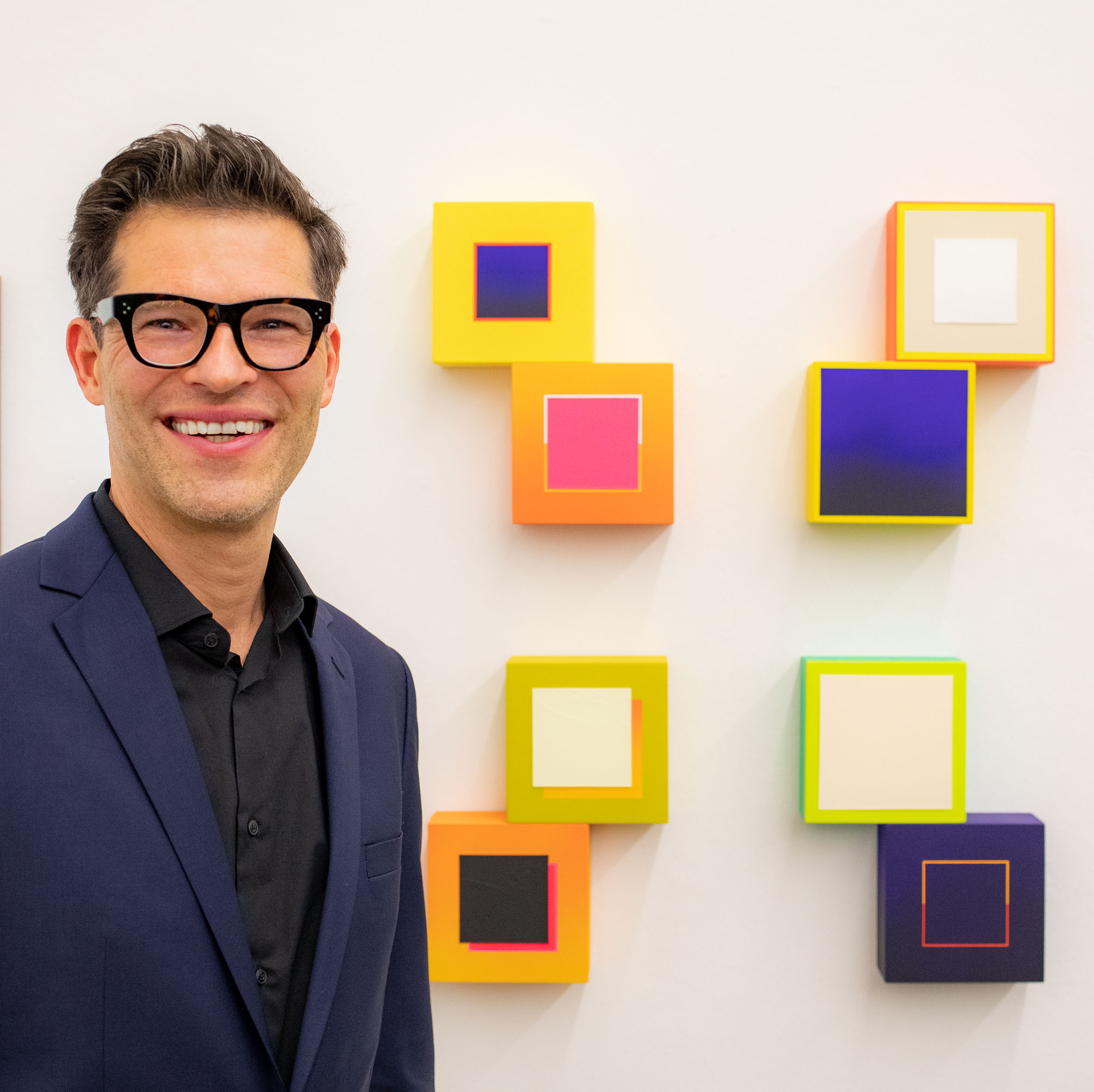 Richard Schur Spatial Object (I), 2018, Acryl auf Holz, 30 x 22,5 x 6 cmSpatial Object (II), 2018, Acryl auf Holz, 30 x 22,5 x 6 cmSpatial Object (III), 2018, Acryl auf Holz, 30 x 22,5 x 6 cmSpatial Object (VI), 2018, Acryl auf Holz, 30 x 22,5 x 6 cm